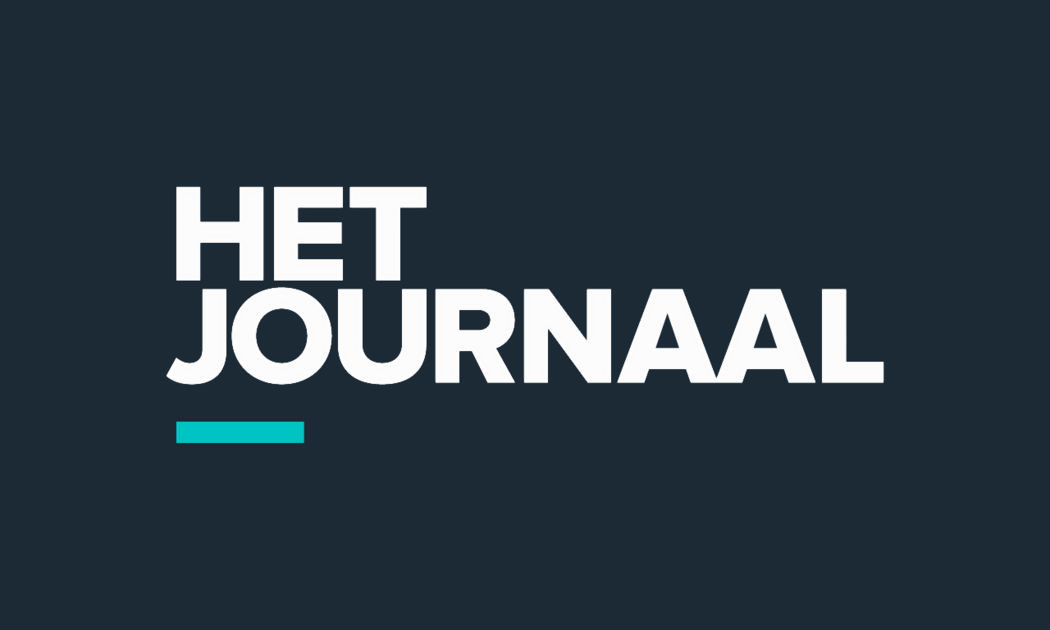 logo of Het Journaal on VRT 2016